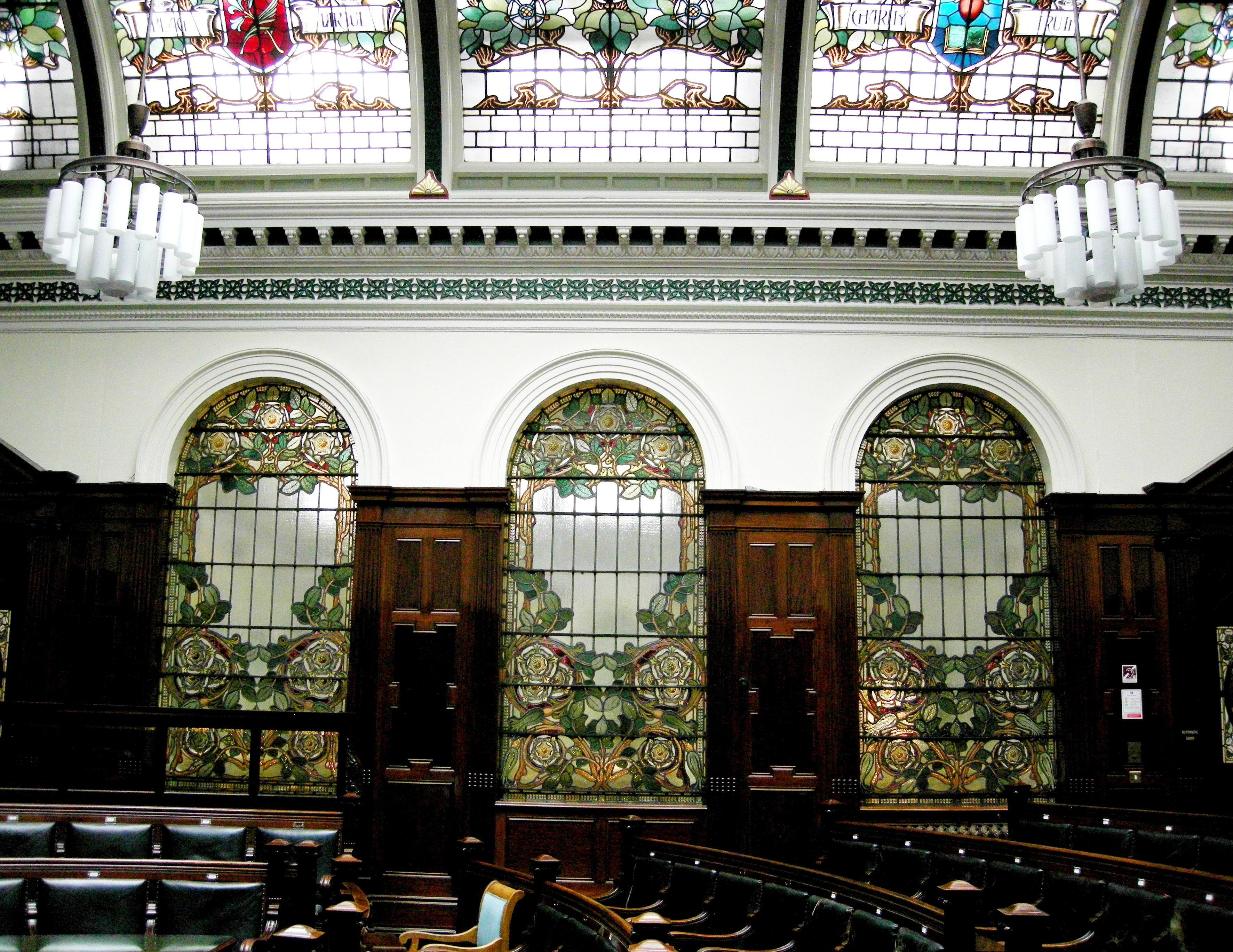 Town Hall, Halifax, West Yorkshire, England. 53 43'28"N. 1 51'38"W.